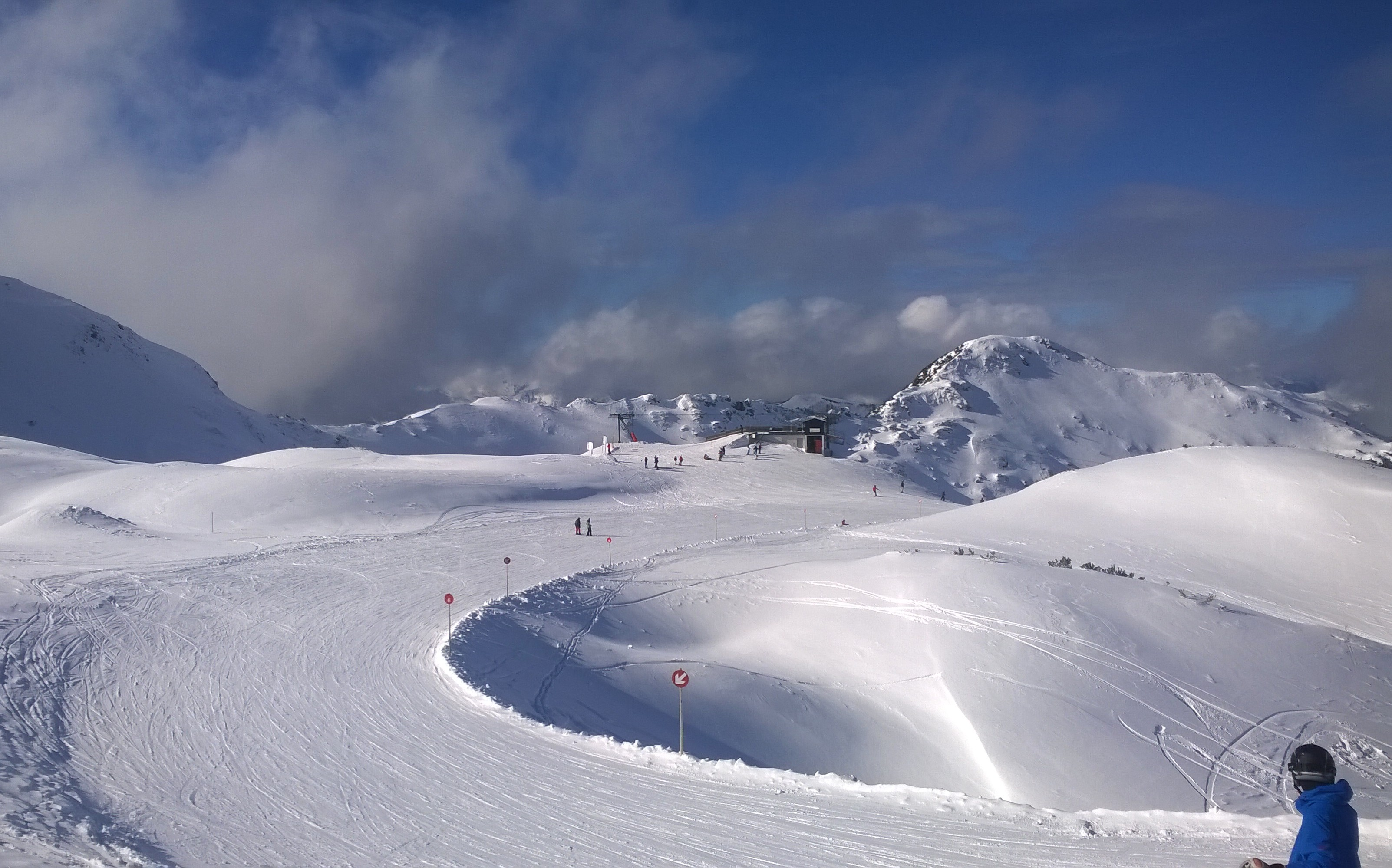 mountain station of 2-CLF Gamskogelbahn II (replaced by a 6-CLD-B of the same name in 2014) in Zauchensee